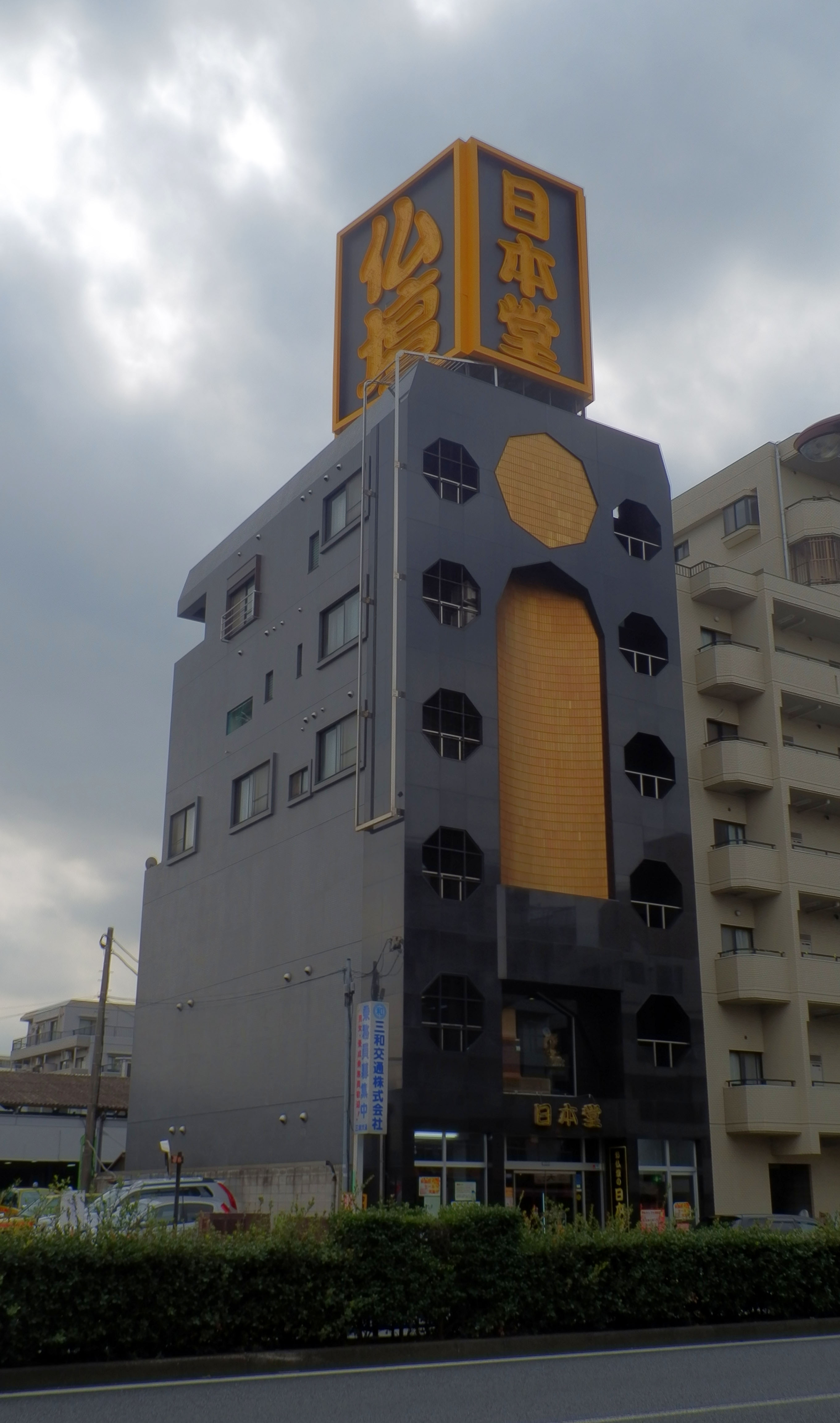 Nihondou headquarters (Japanese Buddhist altar fittings retailer)